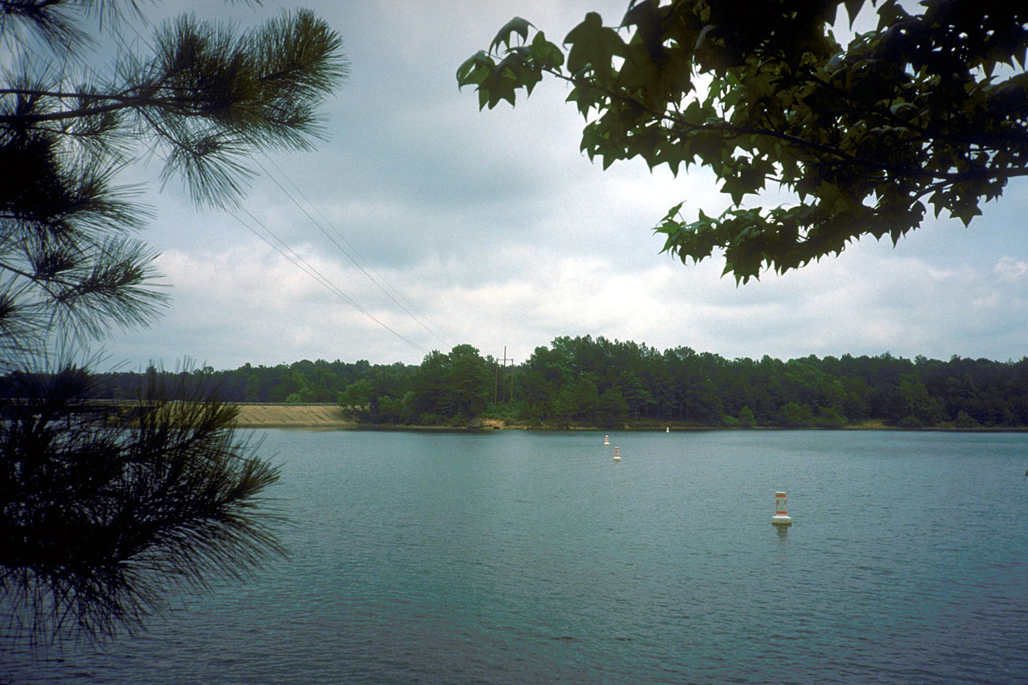 Lake O’ the Pines on Big Cypress Bayou, Marion County, Texas, USA. The lake is impounded by Ferrells Bridge Dam, a concrete-and-earthfill dam that is over 2 miles (3.2 km) long. The U.S. Army Corps of Engineers constructed the dam in 1951 for flood control and water supply. Coordinates: 32°46′14″N 94°32′34″W / 32.77056°N 94.54278°W